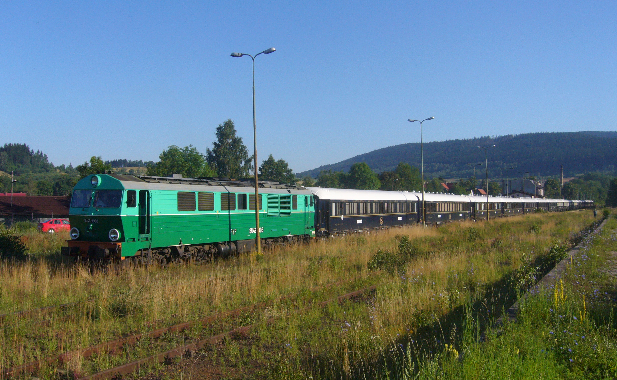 Venice-Simplon Orient Express in Poland, Mieroszów (railway line 291, route Venice – Wien – Banská Bystrica – Kraków – Warszawa – Malbork – Wrocław – Prague).